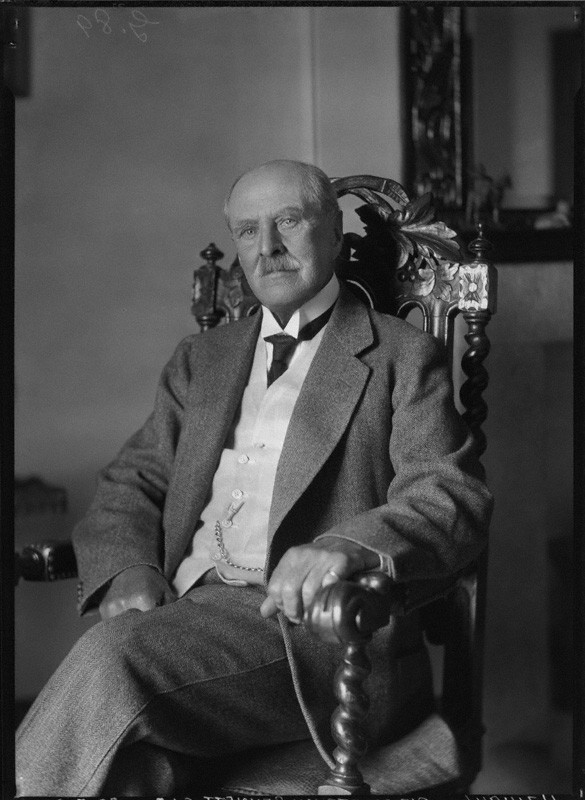 by Lafayette (Lafayette Ltd), half-plate nitrate negative, 20 July 1932